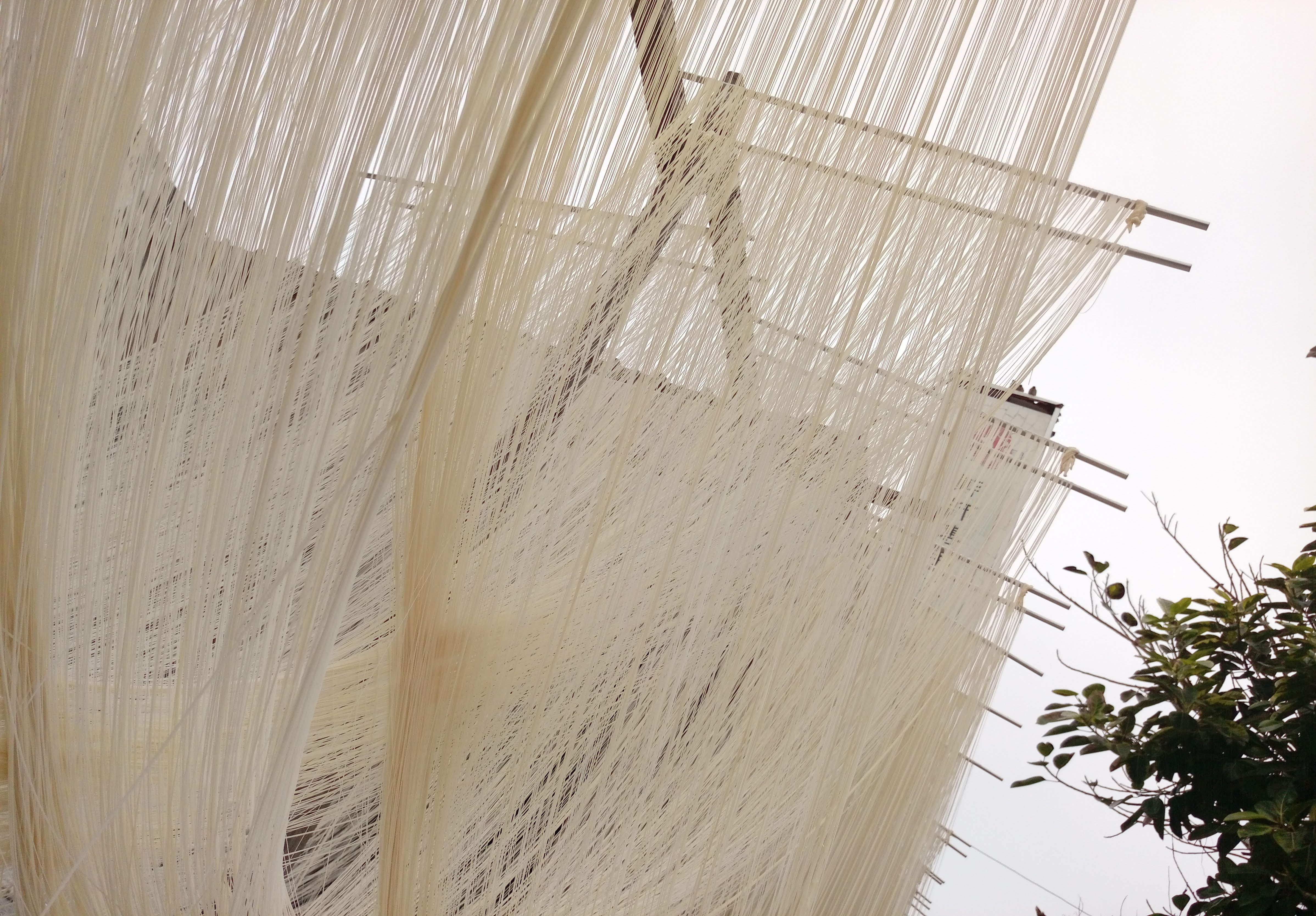 Handmade Rice Vermicelli at Siwei / Xiwei, Penghu, Taiwan